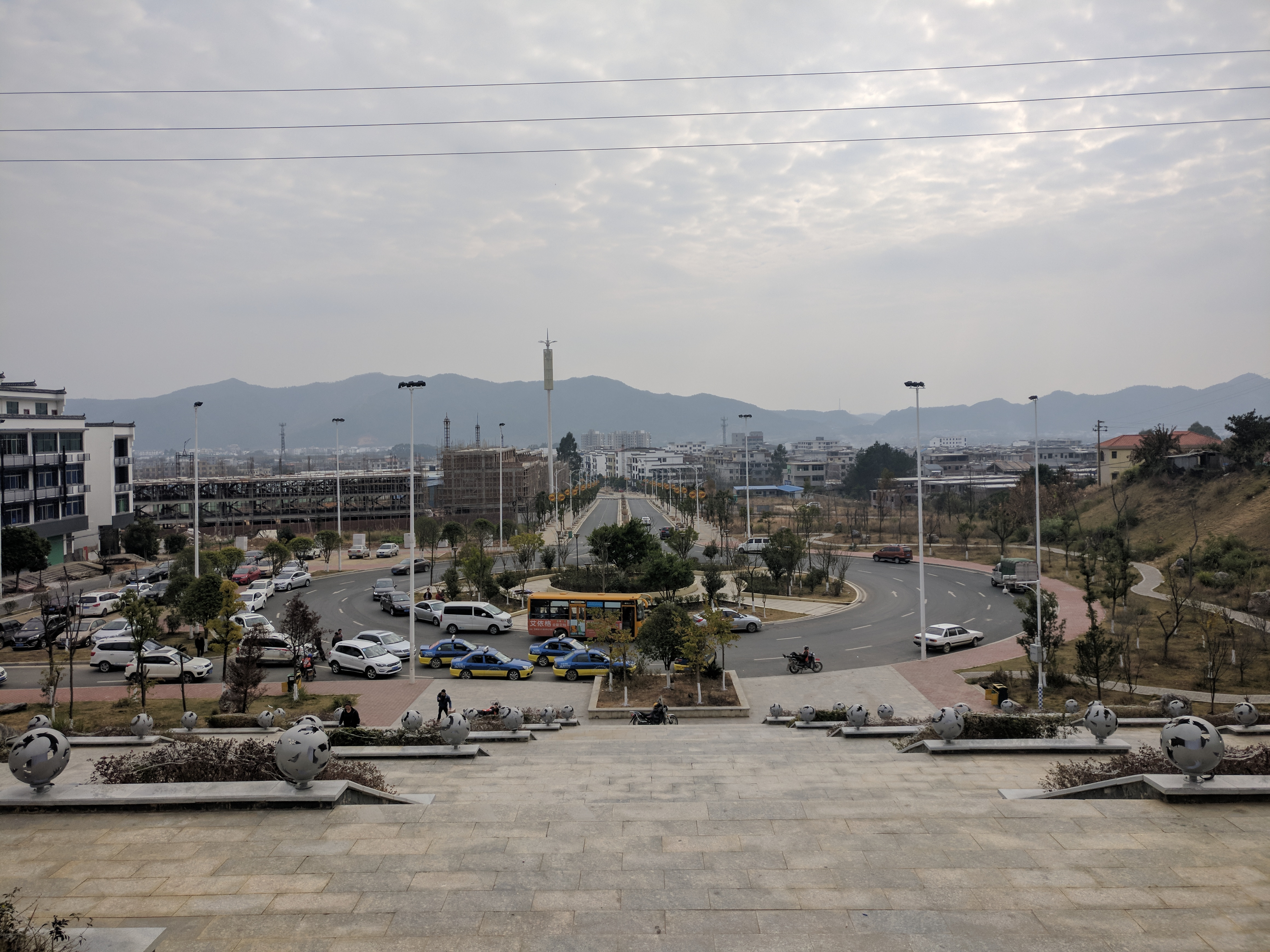 The square and the bus terminus in front of Longnan Railway Station.